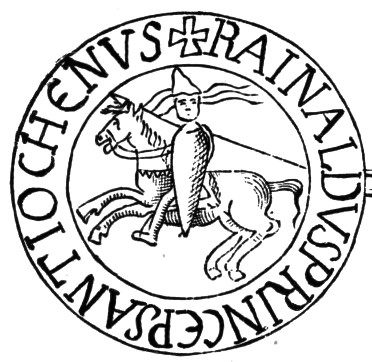 Reginald de Chatillon